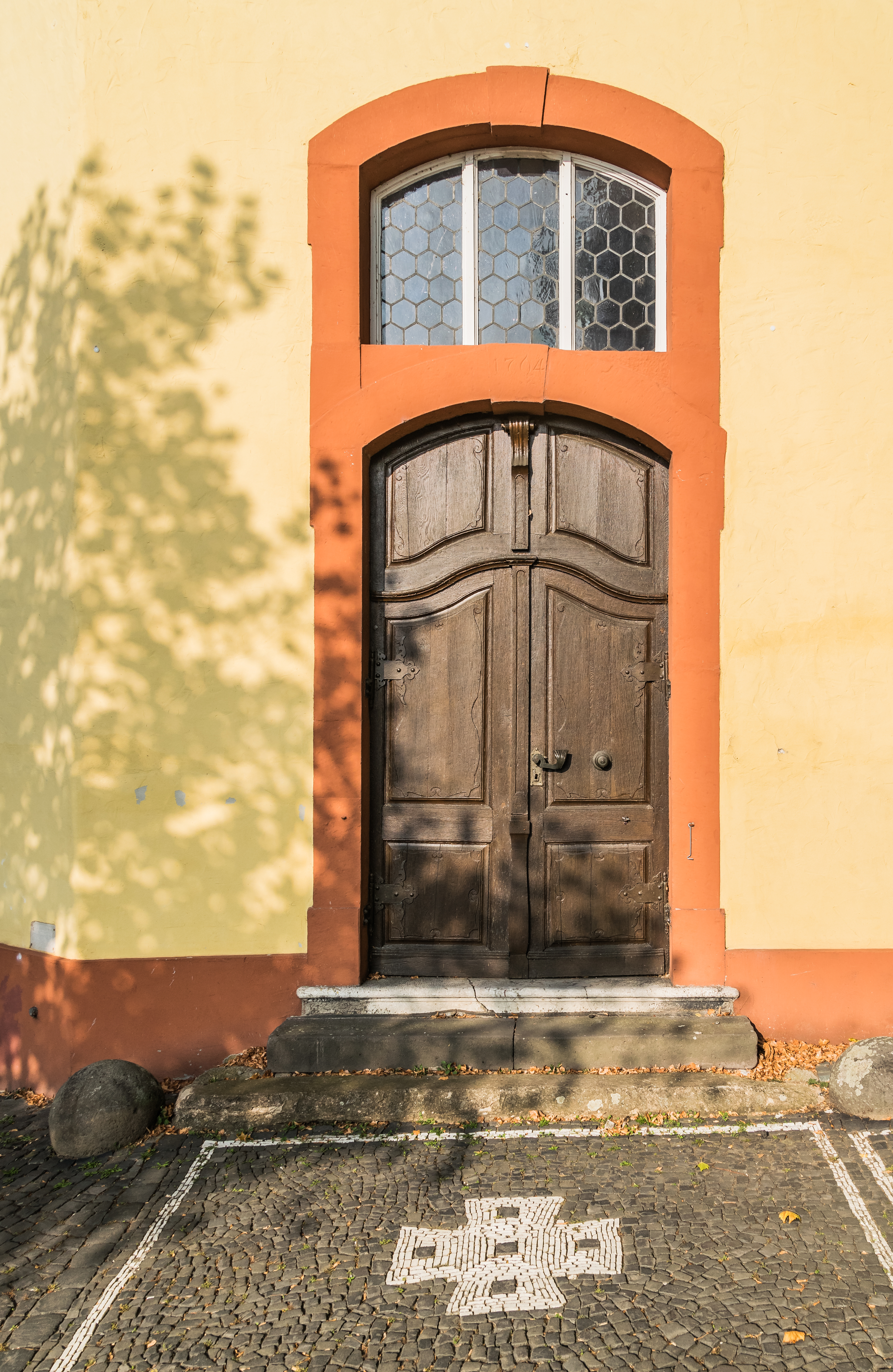 Door of the Hospitalkirche in Wetzlar, Hesse, Germany